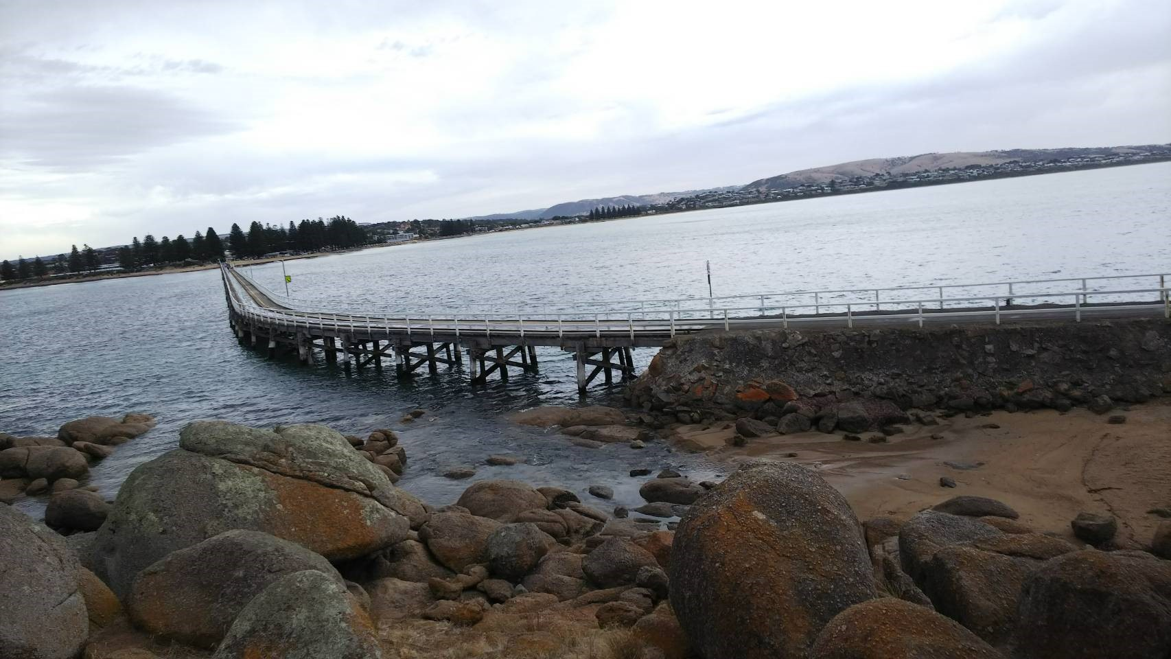 The causeway in Victor Harbor Taken from Granite Island, on the 17th of March, 2018